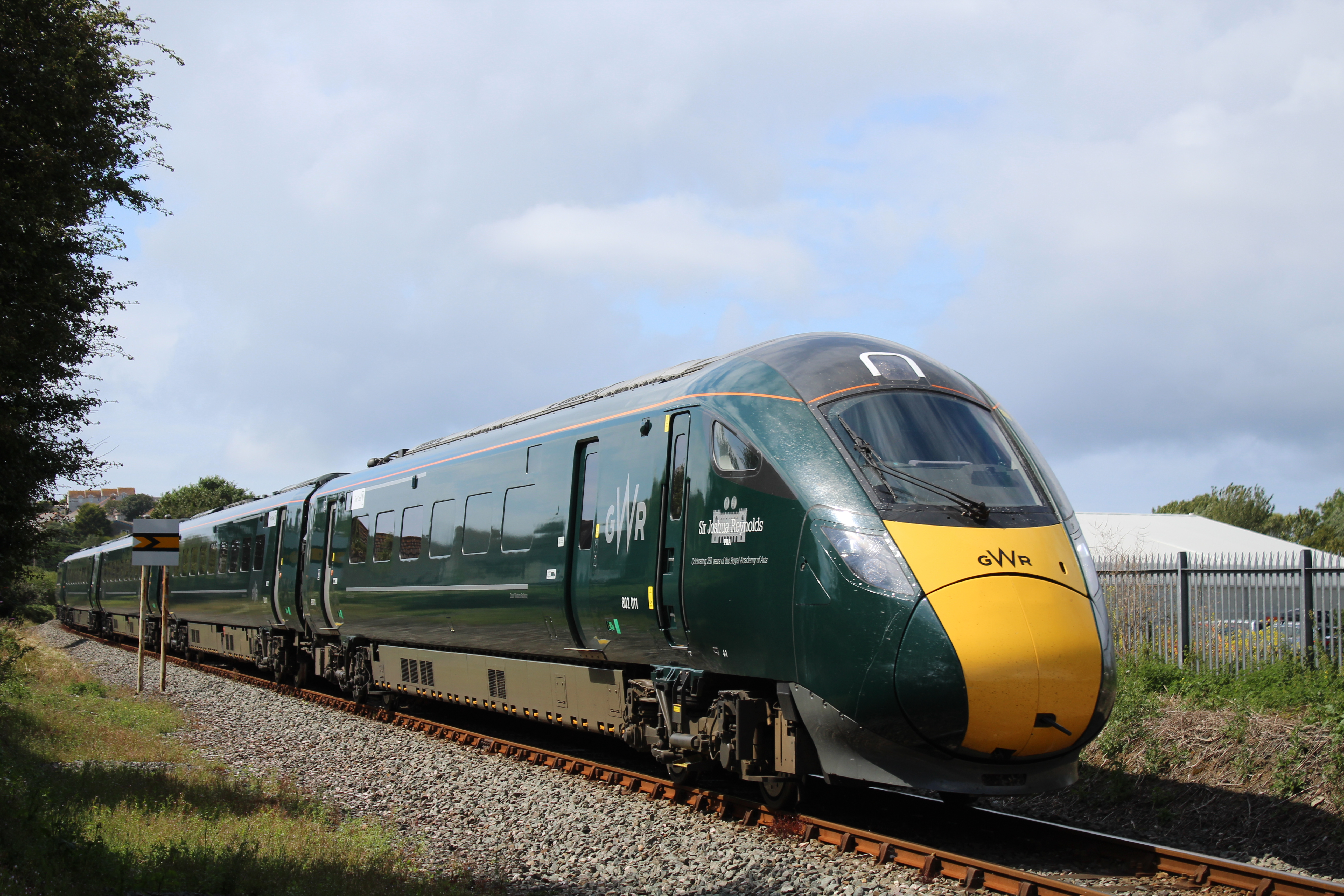 GWR IET 802011 at Wild Flower Lane in Newquay with the weekday summer service from Newquay to London Paddington. 'The Atlantic Coast Express'.